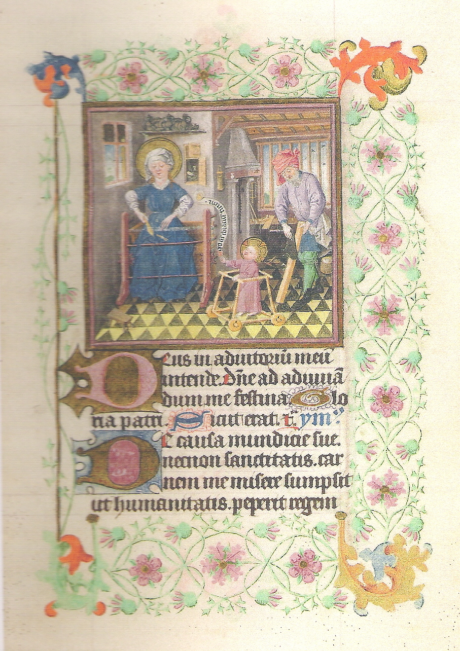 Meester van Catharina van Kleef, Holy Family